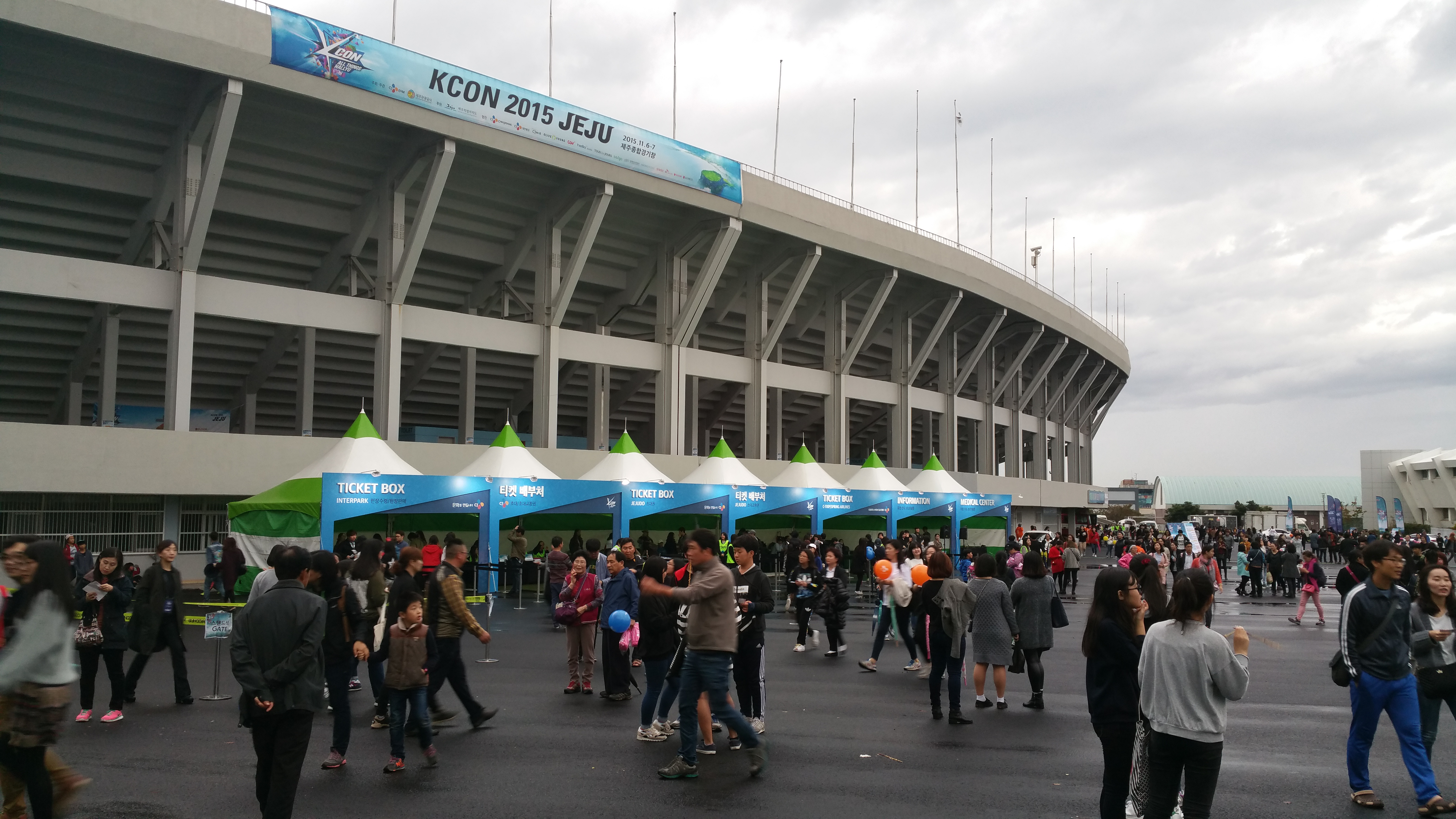 KCON JEJU 2015, November 6 - 7, Jeju Stadium, Jejudo, South Korea.